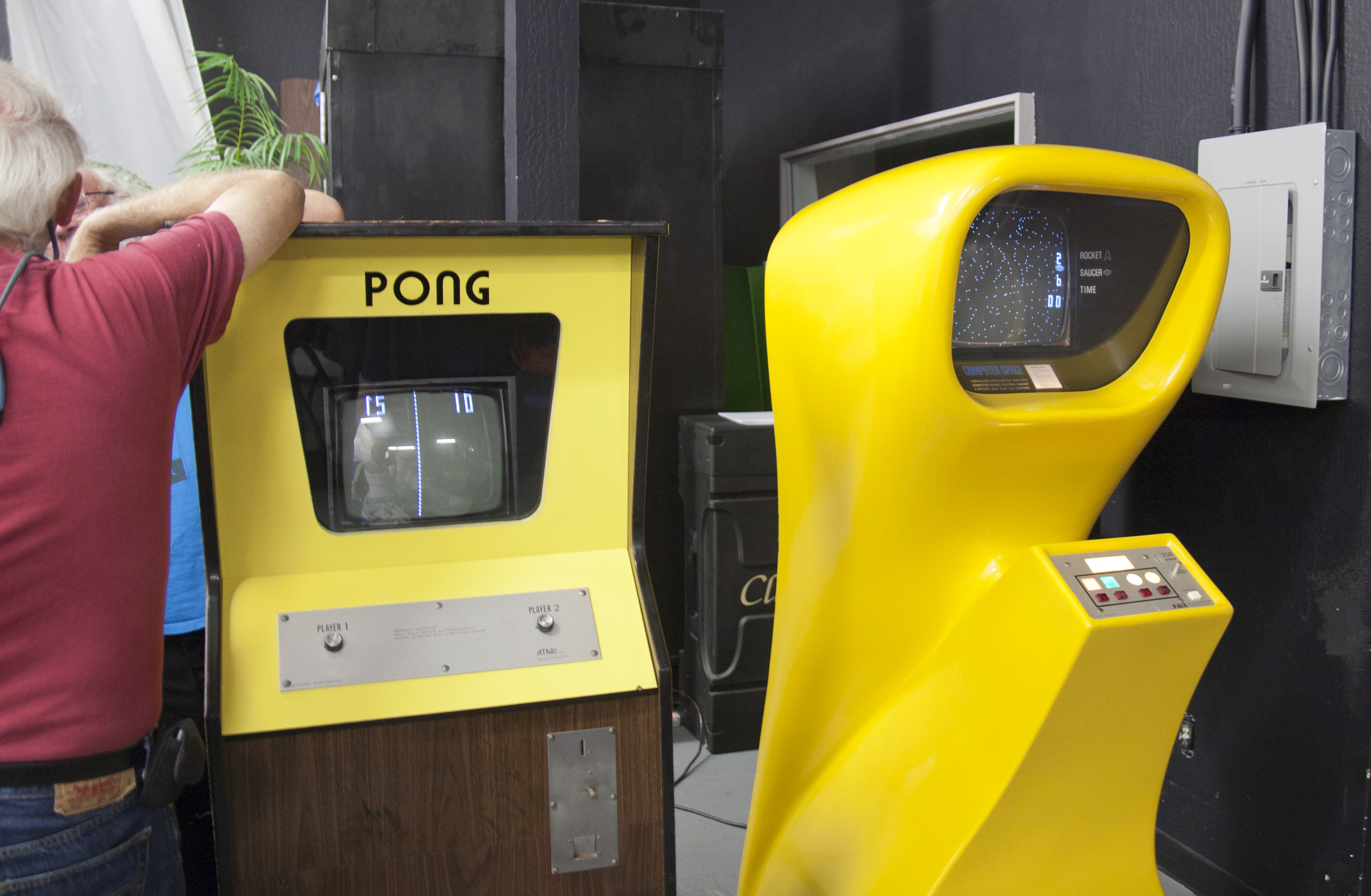 "Late in our planning for the Atari Party we found someone who volunteered to bring original Pong (#47) and Computer Space (#1) arcade machines. Yes, #1 - the first Computer Space machine ever produced. Obviously we took him up on his offer!